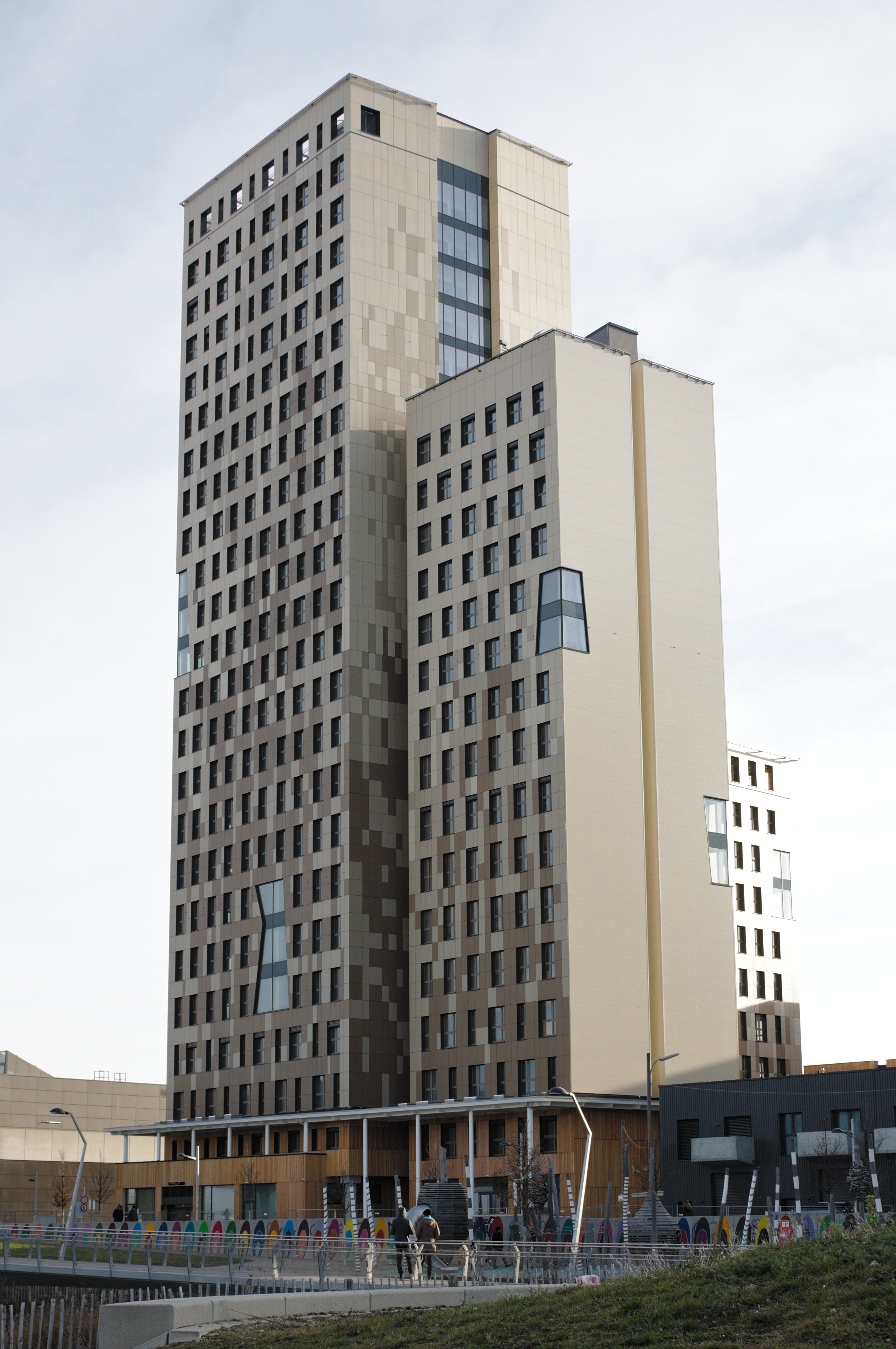 HoHo_Wien_Vienna_19-20